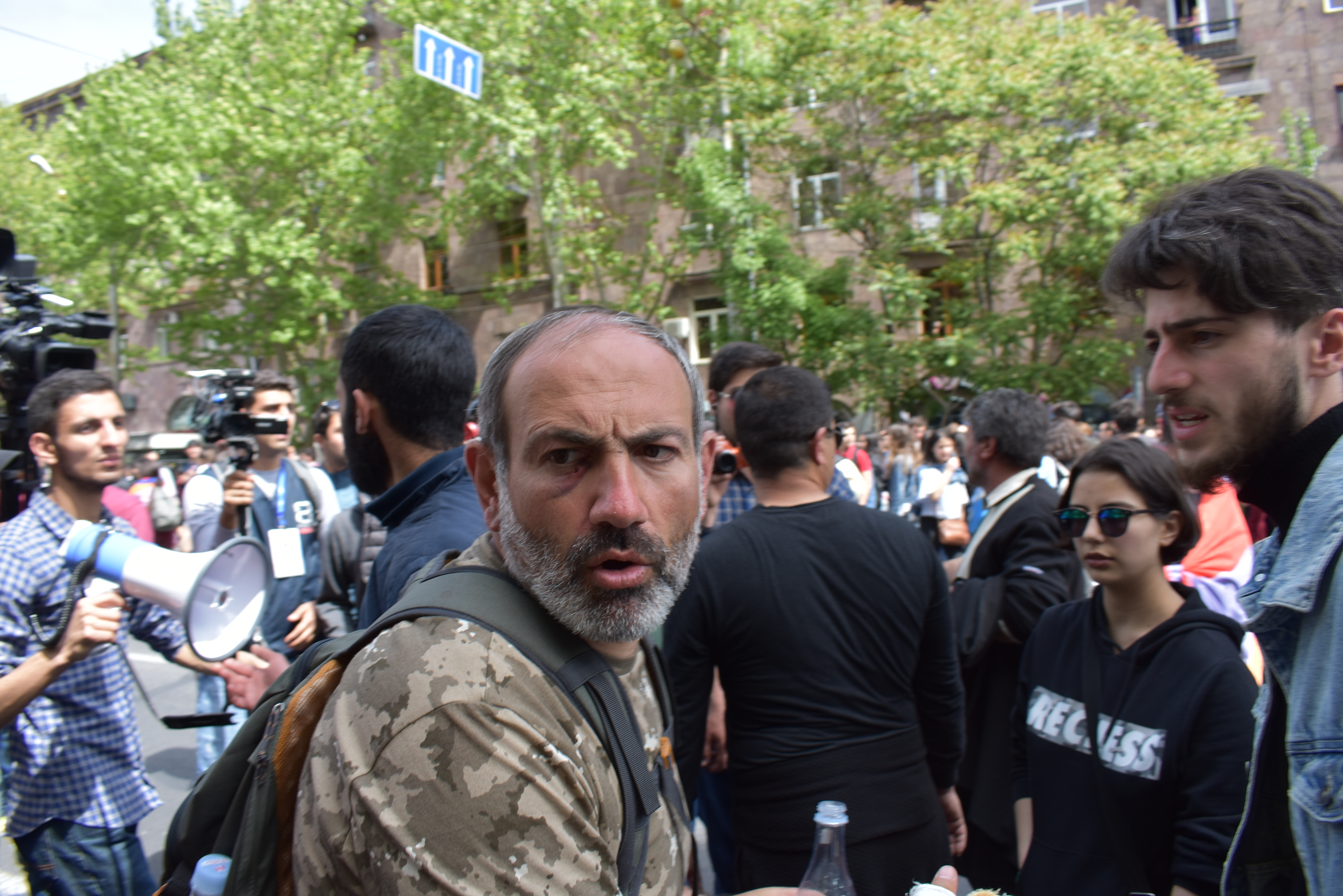 during the 2018 revolution